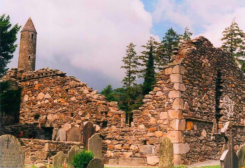 Glendalough, Lower Valley